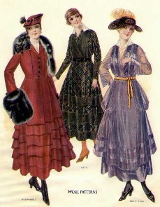 Fashiopn print from McCall's Magazine c. 1916